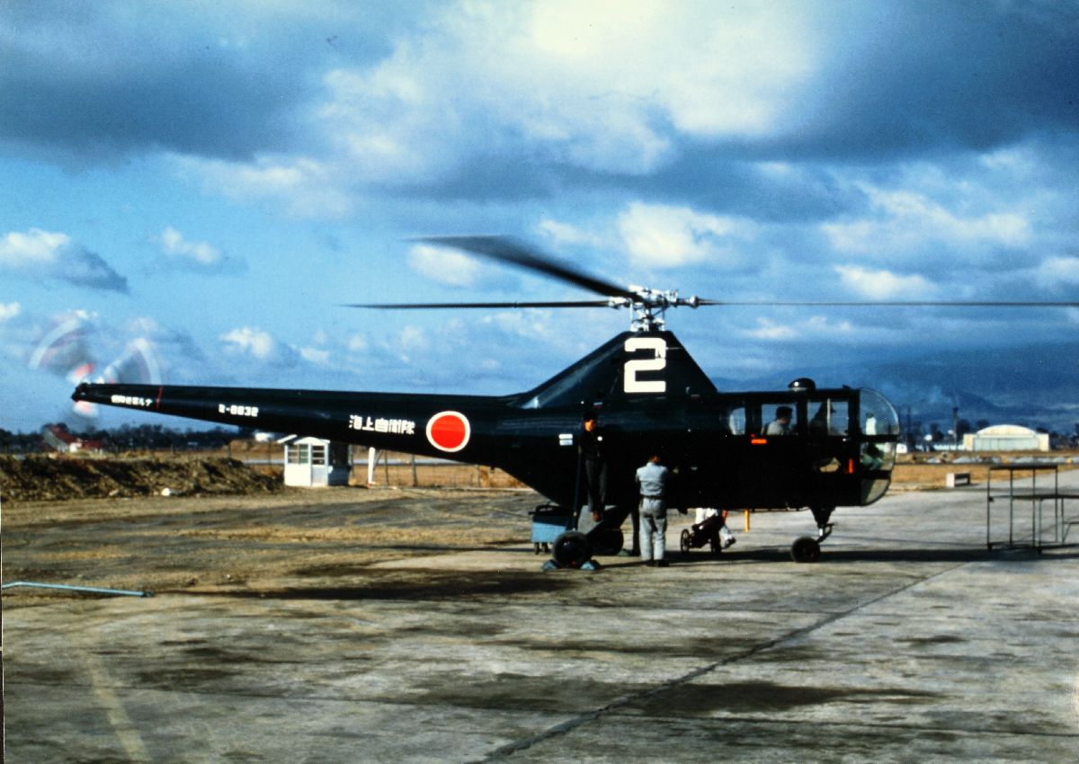 Catalog #: 01_00091185 Title: Westland-Sikorsky WS-51 Corporation Name: Sikorsky Aircraft Corporation Designation: Westland-Sikorsky WS-51 Additional Information: USA Color or B/W: Media: Glossy Photo Tags: Westland-Sikorsky WS-51 Repository: San Diego Air and Space Museum Archive